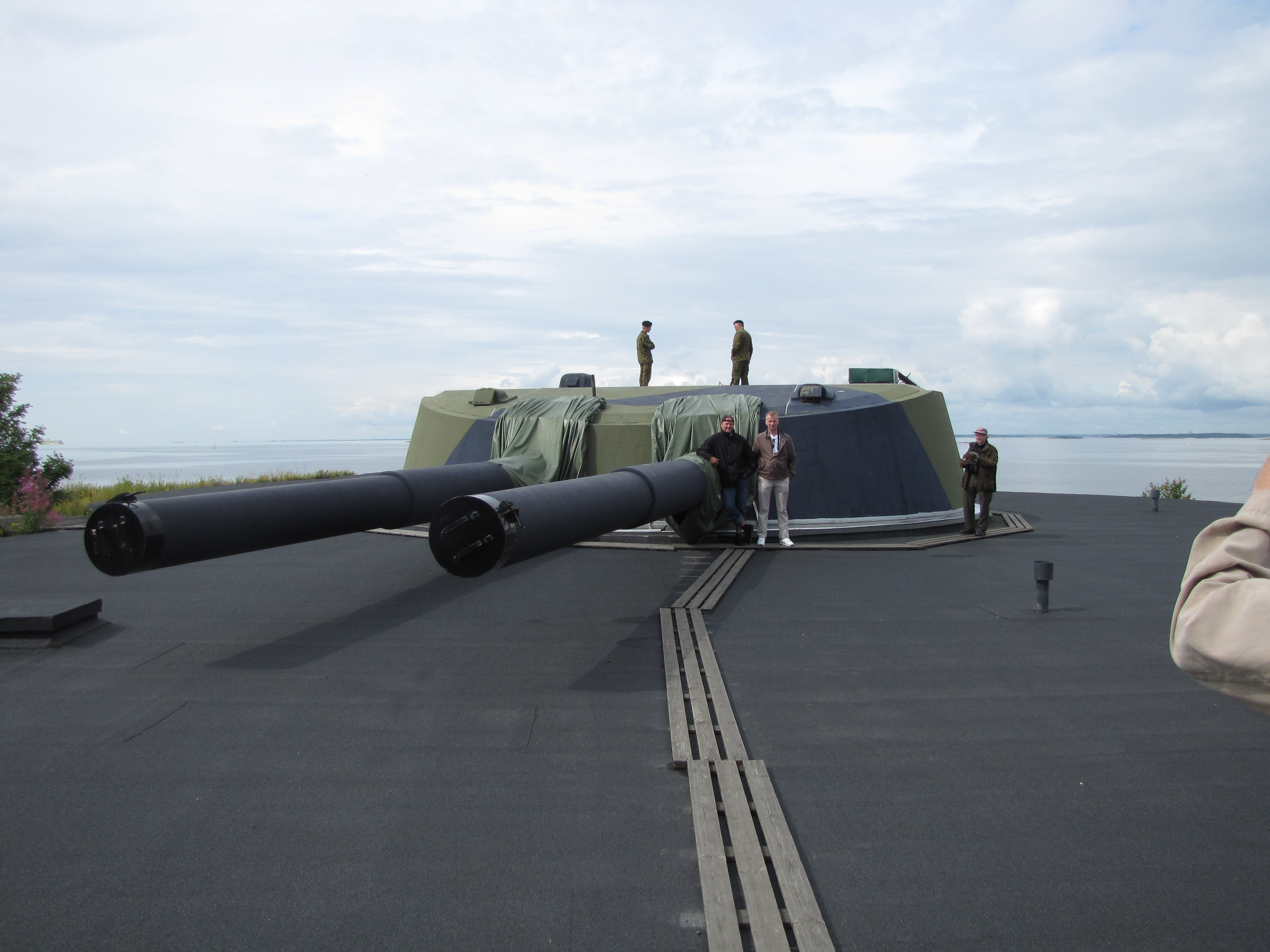 305 mm 52 caliber twin coastal artillery turret in Kuivasaari. This turret was constructed by Finns between 1931 and 1934 by using 305 mm (12 inch) guns from Ino and a 356 mm (14 inch) twin turret barbette and other parts transported from Mäkiluoto.